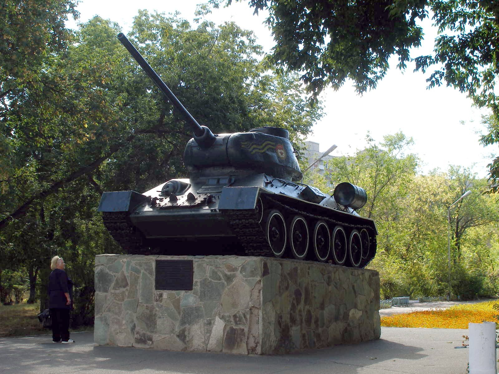 Memorial in commemoration of battle and civil deeds of valour of citizens of Pavlodar during the Great Patriotic war 1941-1945.